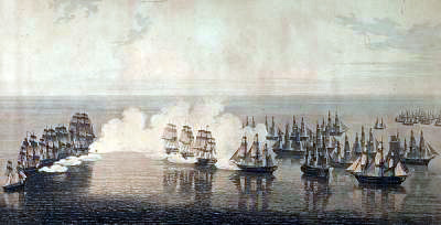 The fleet of the East India Company homeward bound from China engaging and repulsing a French squadron near the Straits of Malacca, on 15 February 1804.